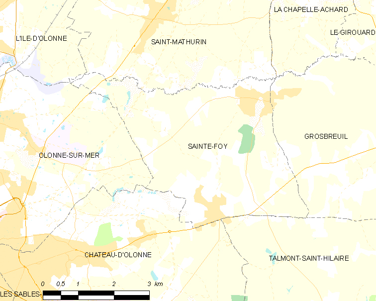 Map of French municipality Sainte-Foy